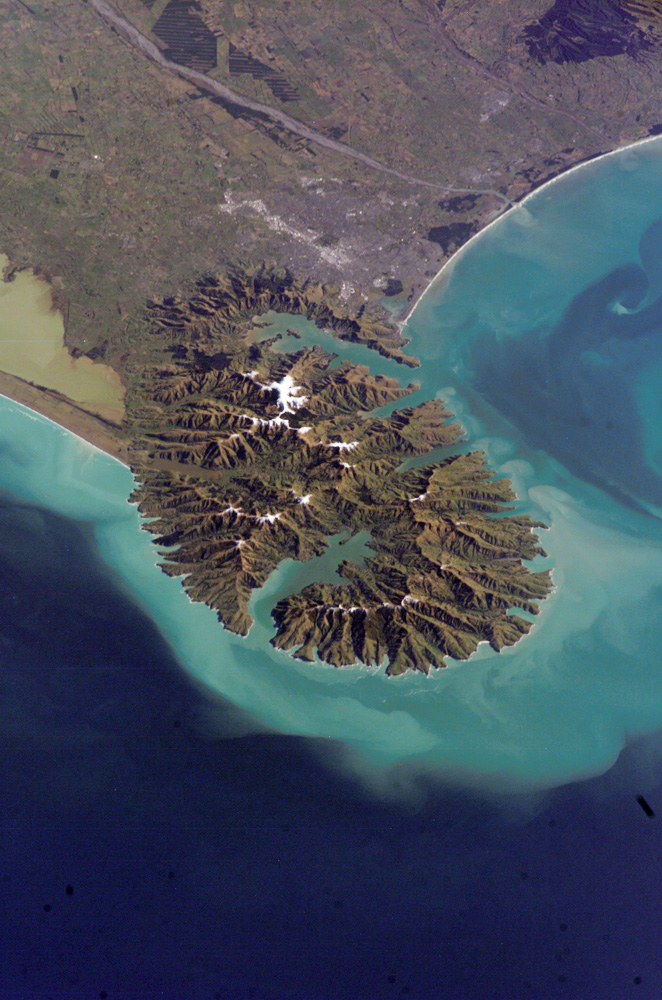 Oblique view of Banks Peninsula, New Zealand next to Christchurch, taken from International Space Station.